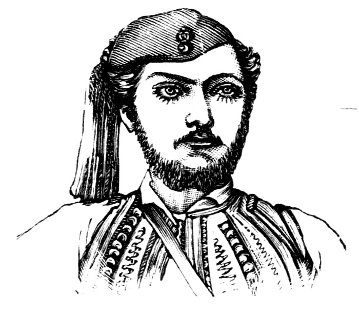 Iraklis Giataganas (?-1886): Greek soldier, illustration from Imerologion Skokou 1887